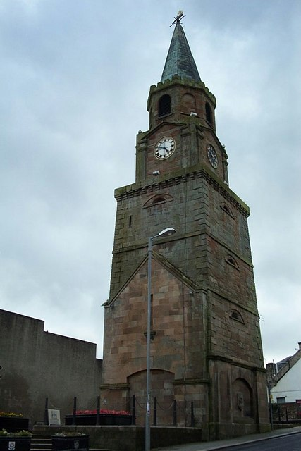 Stumpy Tower - Girvan Stumpy Tower is a Grade B listed building and was purpose built as the Town Jail in 1827. Stumpy replaced the former jail sited on the south west corner of the market place. The old jail built in 1789 was a two storey building with a thatched roof through which prisoners frequently made their escape. This first jail was also known as Stumpy. The town council minutes record that the proposals for a new jail with steeple were approved in 1825. A certificate for the new jail was issued in 1827, the substitute Sheriff being satisfied that Stumpy was well aired and fit for prisoners. Stumpy contained a clock tower beneath which the first and second and third floors were built as prison cells each with a latrine in the south west corner. Ten years after completion the jails inspectorate noted that a marked improvement in the peace of the town is said to have followed following the construction of the prison. Stumpy was used as a jail from 1827 until the 1870s when a new jail and police station were constructed.